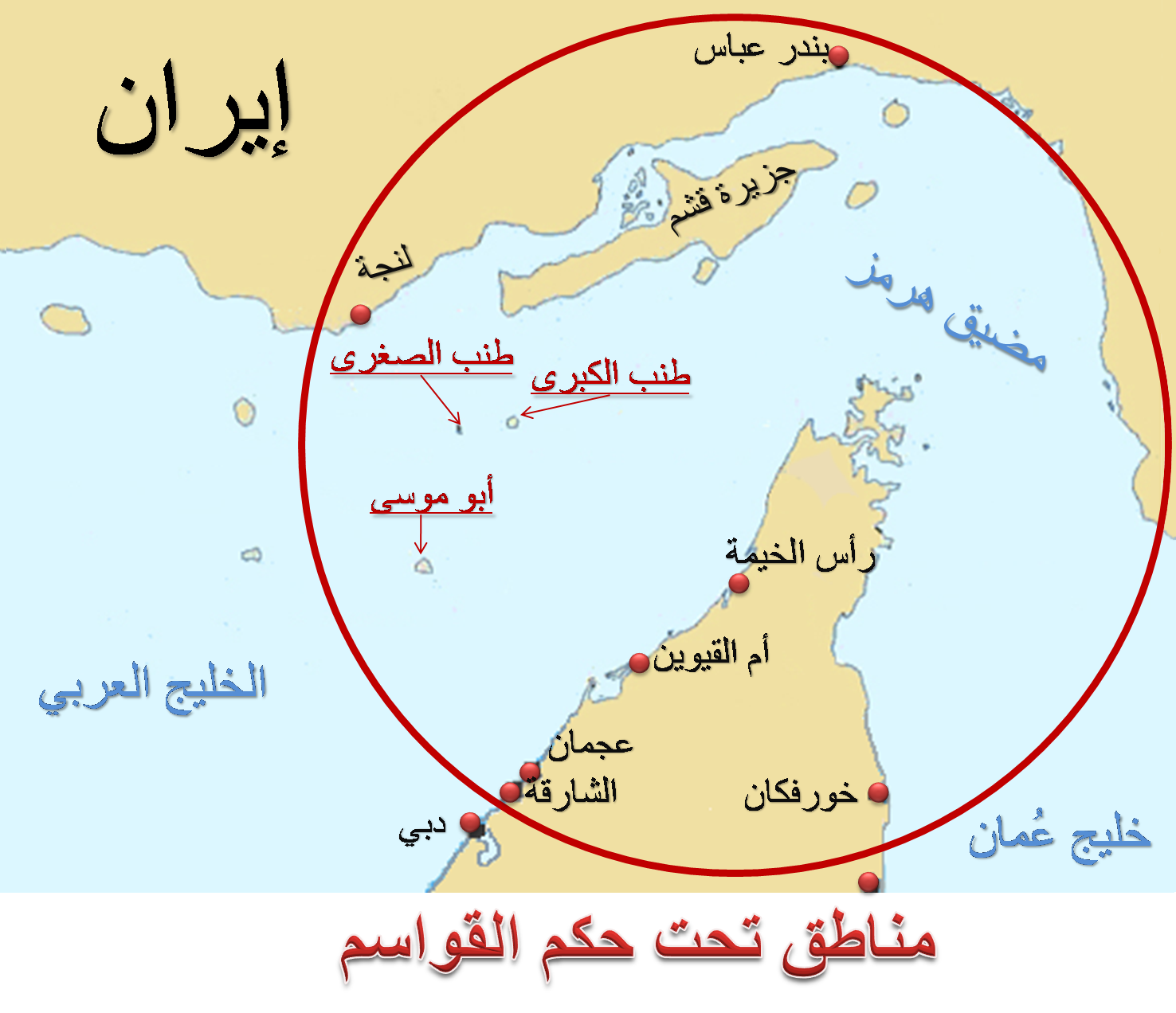 This is a map of the territory that the Qawasem Ruled Late 18th Century and early 19th century traced from the map